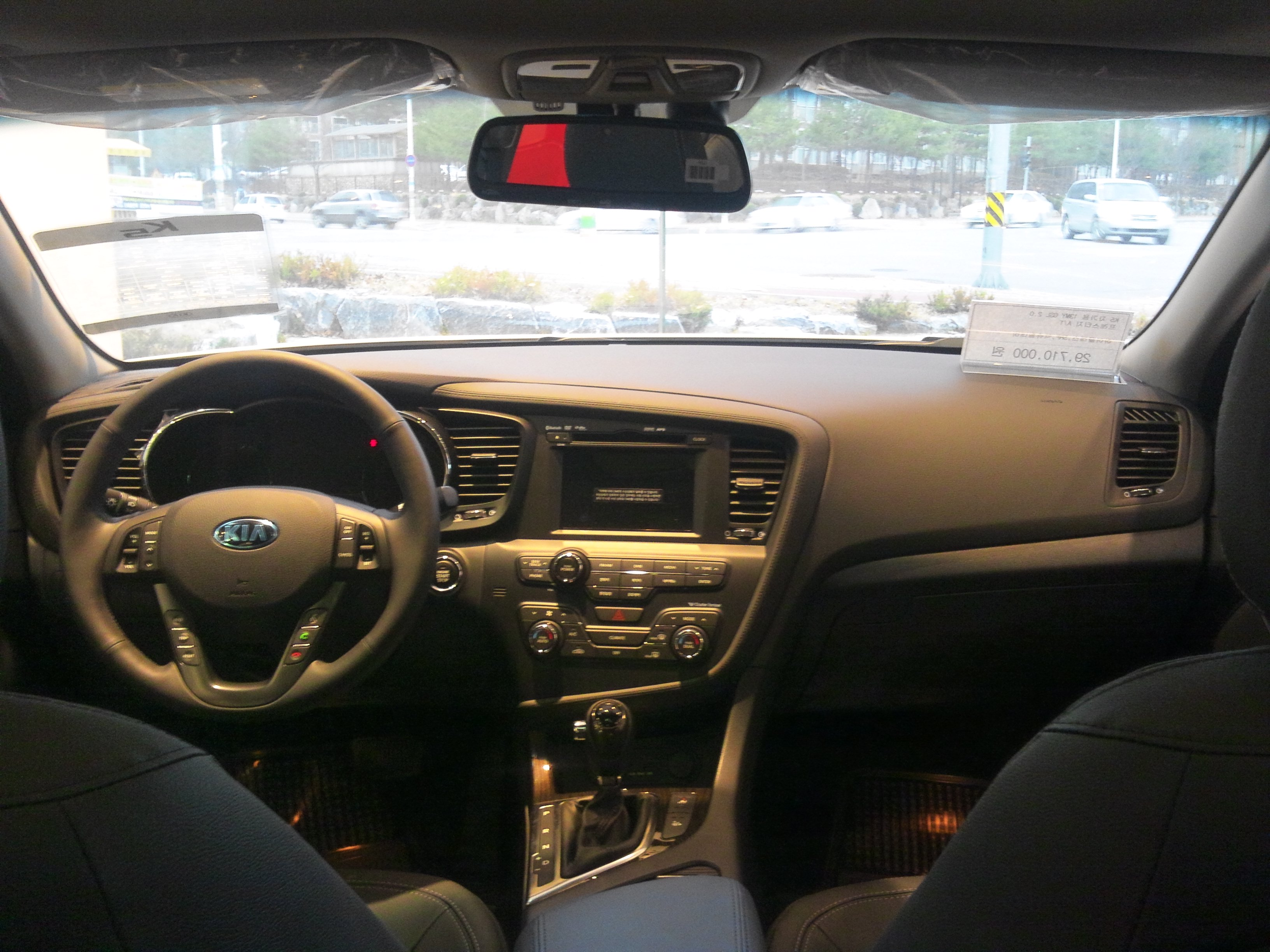 Interior of Kia K5.